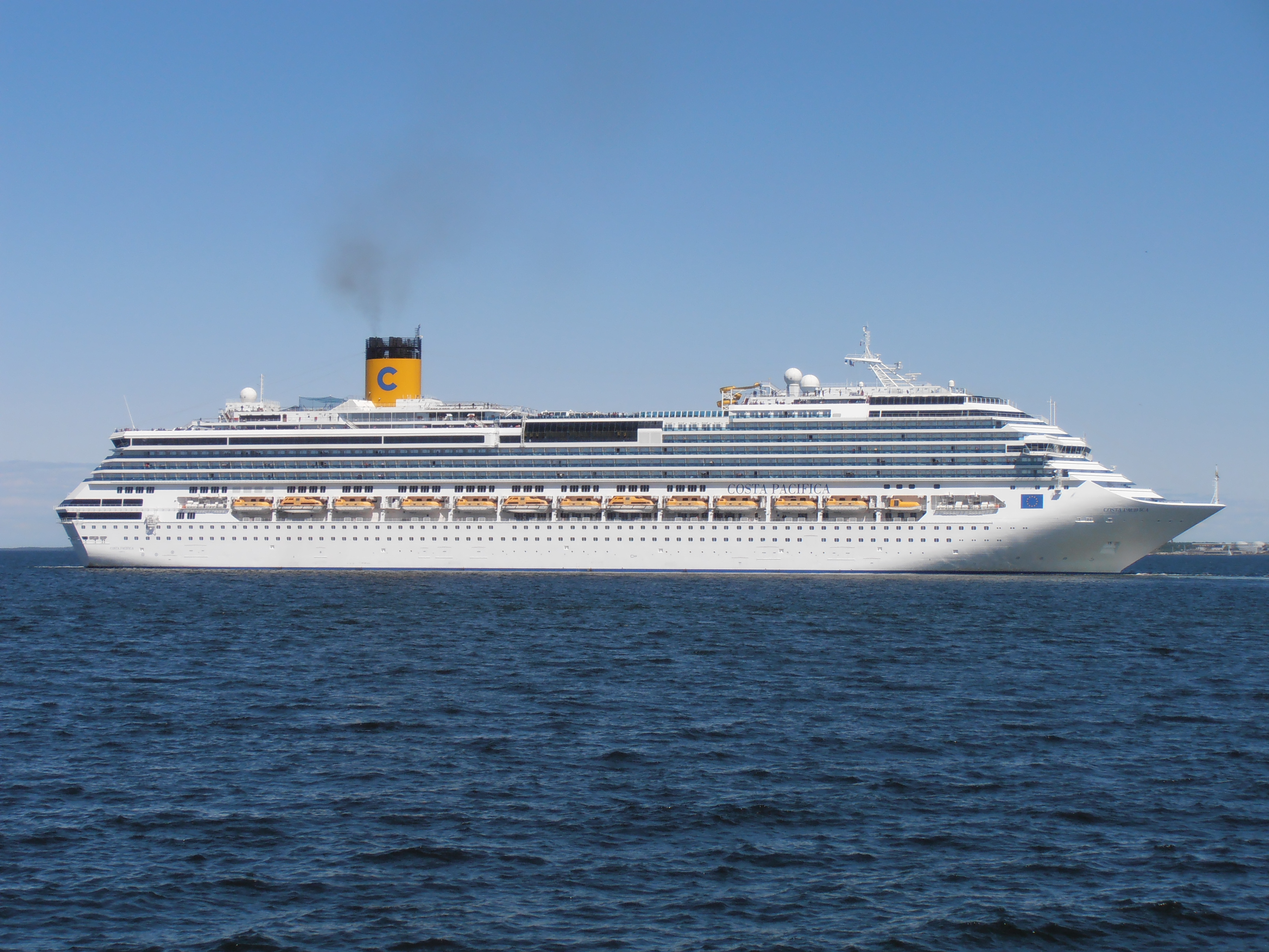 Costa Pacifica departing Tallinn 29 May 2012